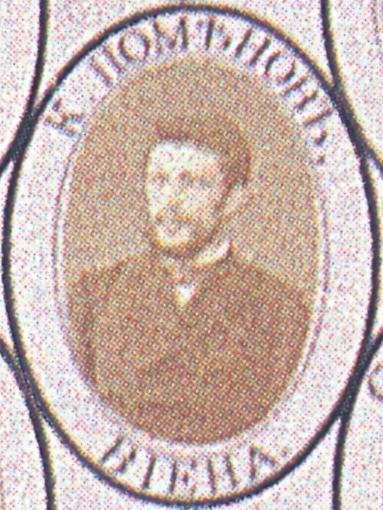 Konstantin Pomenov. Photographs of the members of the Bulgarian Constituent Assembly in Veliko Tarnovo, 1879